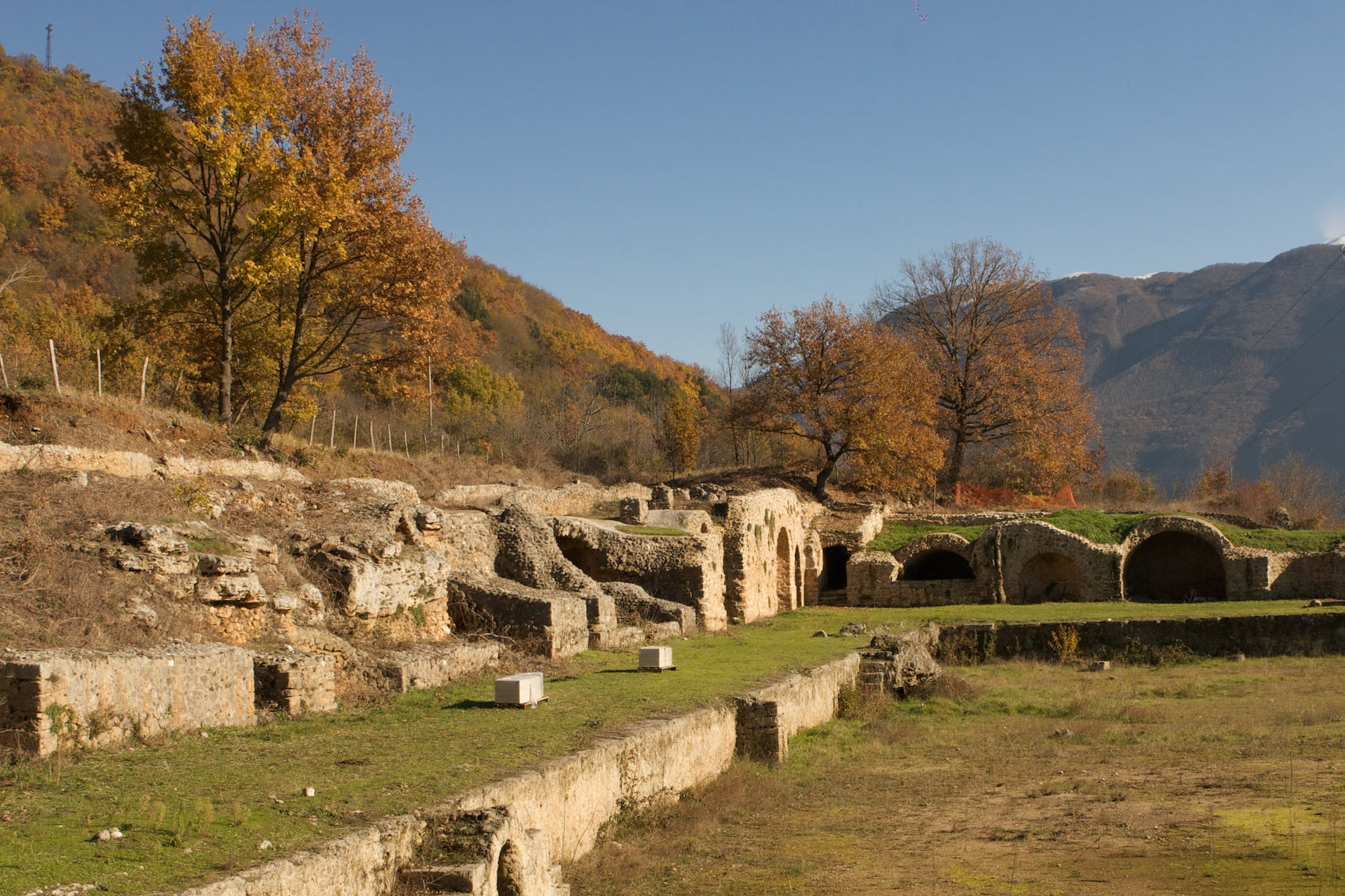 Ruins of Vespasiano baths - Cotilia, Cittaducale (Lazio, Italy)